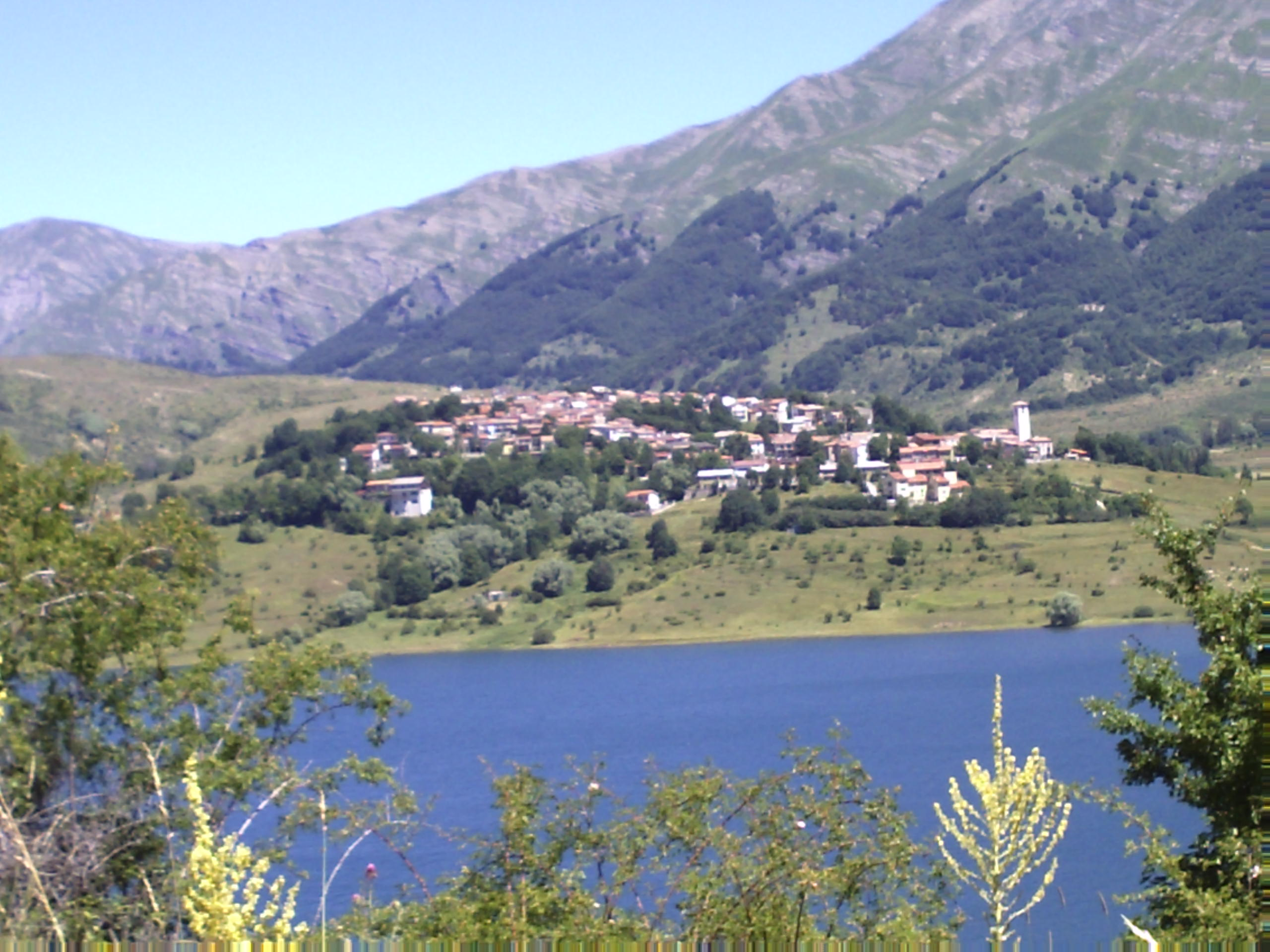 A view of Campotosto, Italy